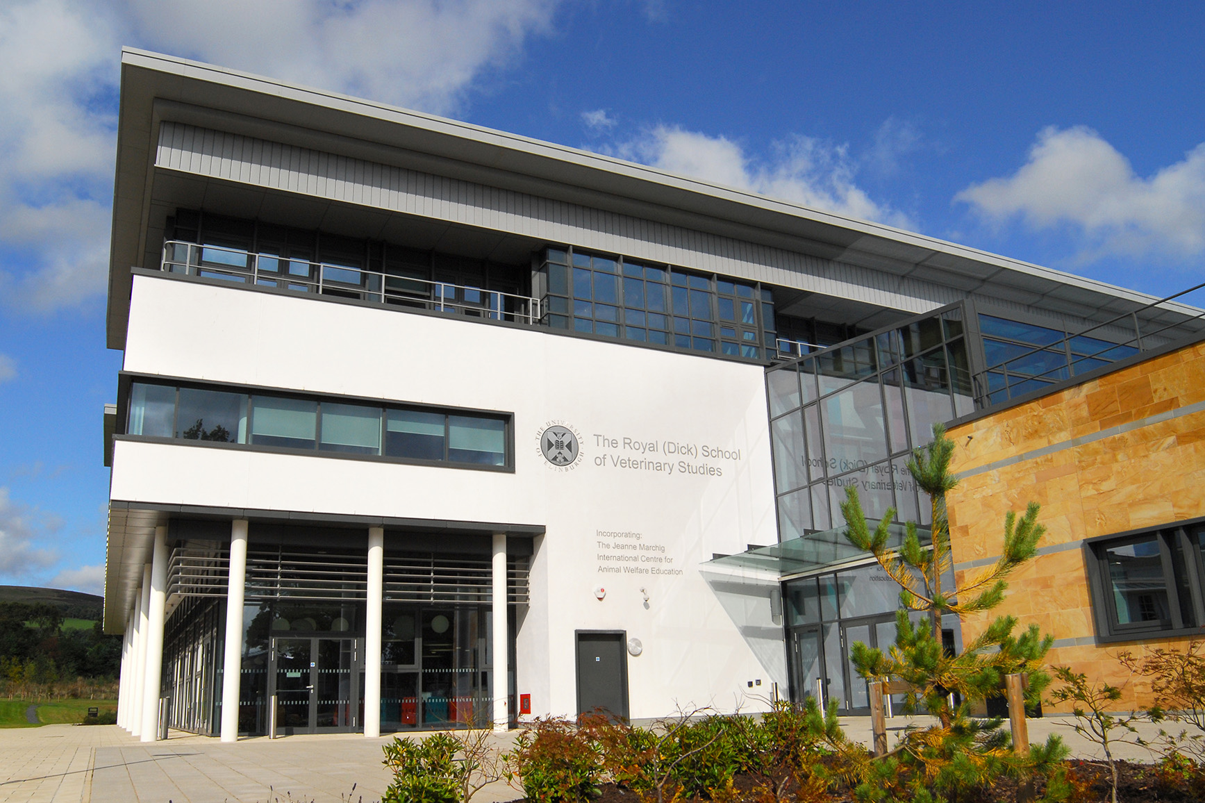 The New Veterinary Teaching Building was officially opened by HRH The Princess Royal, Chancellor of The University of Edinburgh, on 27th September 2011.